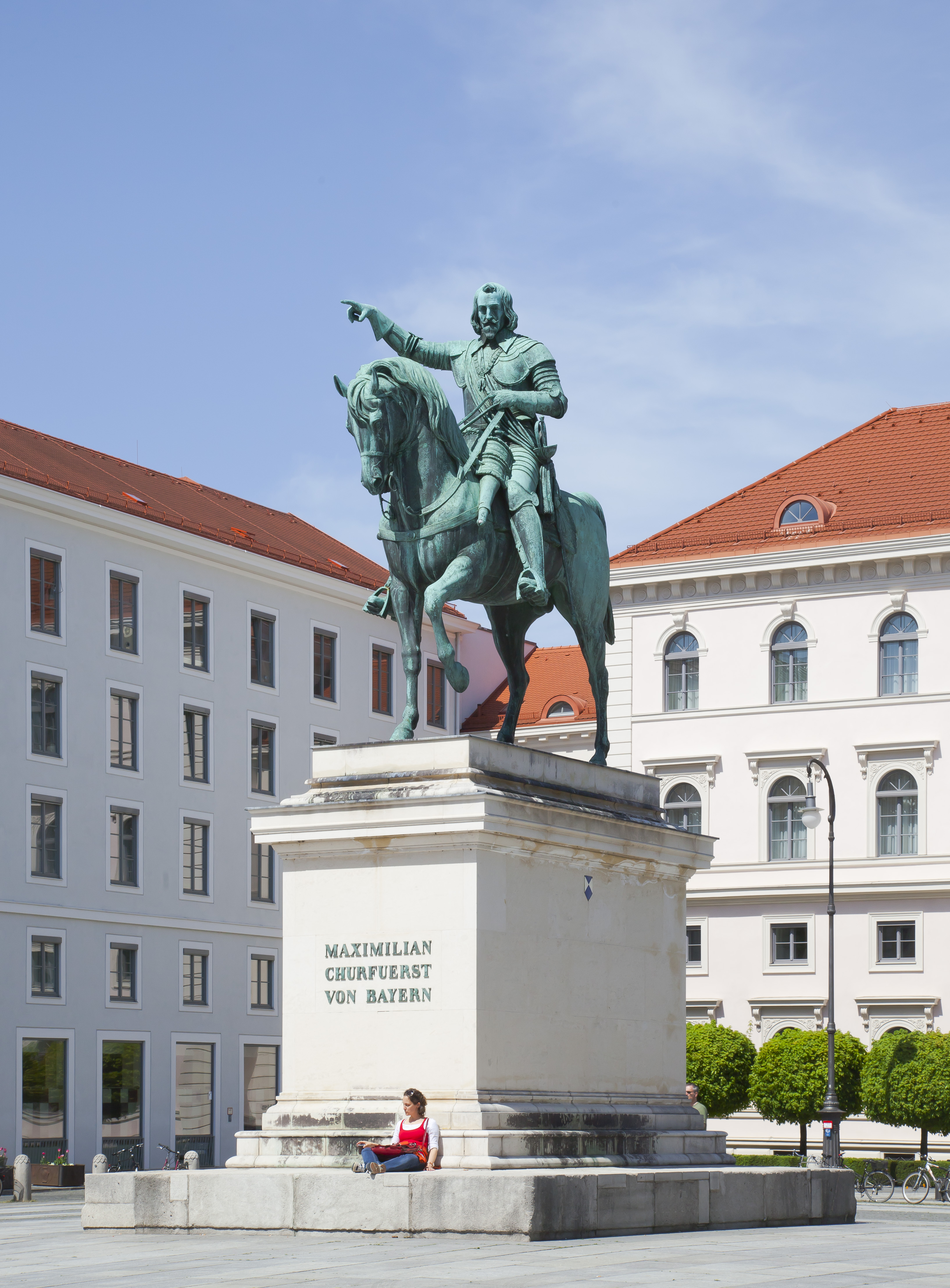 Monument to Maximilian I, Munich, Germany